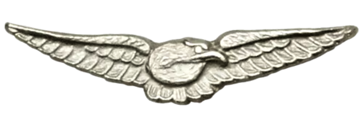 Ribbon device. For acts of bravery while flying, not in the presence of the enemy.